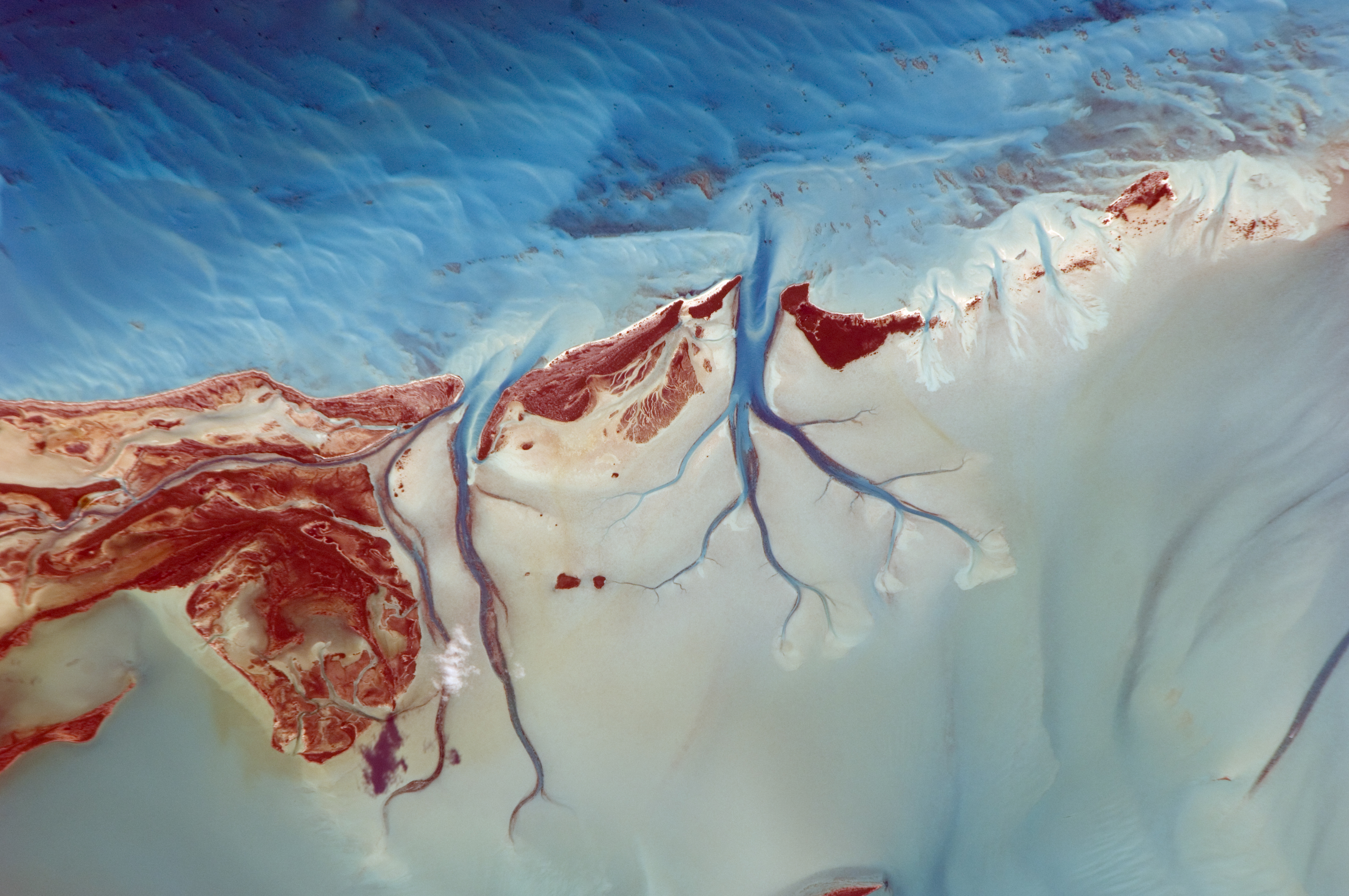 Tidal flats and channels on Long Island, Bahamas are featured in this image photographed by an Expedition 26 crew member on the International Space Station. The islands of the Bahamas in the Caribbean Sea are situated on large depositional platforms (the Great and Little Bahama Banks) composed mainly of carbonate sediments ringed by fringing reefs – the islands themselves are only the parts of the platform currently exposed above sea level. The sediments are formed mostly from the skeletal remains of organisms settling to the sea floor; over geologic time, these sediments will consolidate to form carbonate sedimentary rocks such as limestone. This detailed photograph provides a view of tidal flats and tidal channels near Sandy Cay on the western side of Long Island, located along the eastern margin of the Great Bahama Bank. The continually exposed parts of the island have a brown coloration in the image, a result of soil formation and vegetation growth (left). To the north of Sandy Cay an off-white tidal flat composed of carbonate sediments is visible; light blue-green regions indicate shallow water on the tidal flat. Tidal flow of seawater is concentrated through gaps in the anchored land surface, leading to formation of relatively deep tidal channels that cut into the sediments of the tidal flat. The channels, and areas to the south of the island, have a vivid blue coloration that provides a clear indication of deeper water (center).